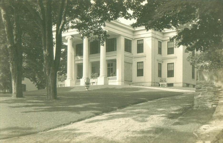 Blaisdell Residence, Belfast, ME; from a c. 1920 postcard. A Greek Revival mansion from the city's shipbuilding era. Known as The Williamson House survives today as a Museum in The Streets landmark.